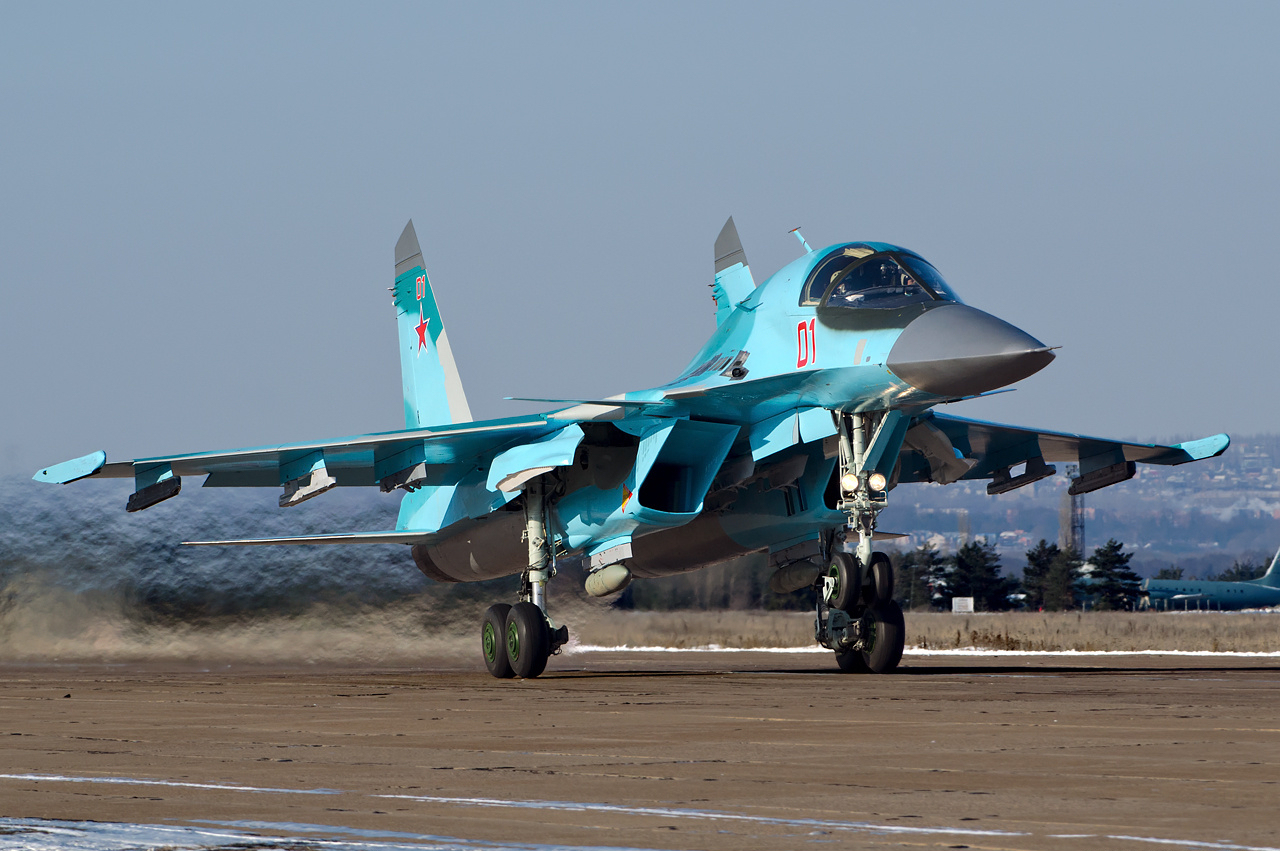 Russian Air Force Sukhoi Su-34